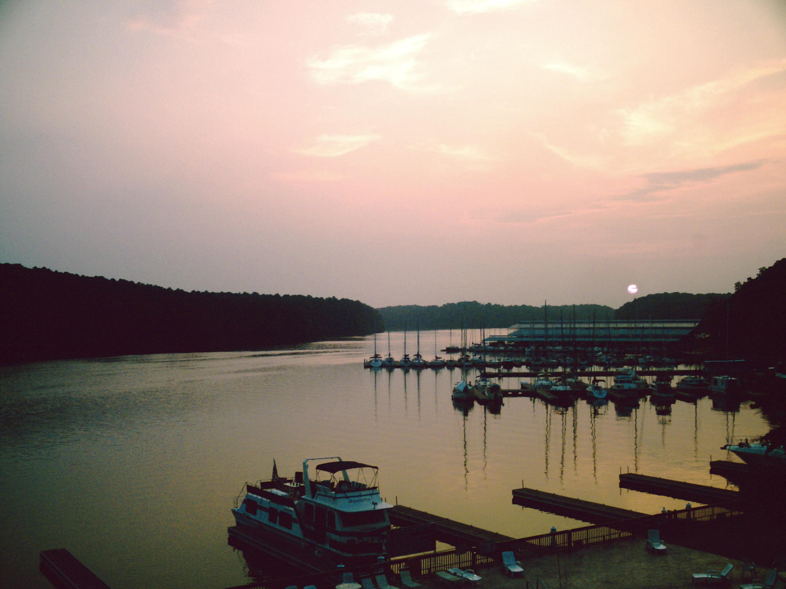 picture taken from resort room 303 each room has a lake view august 14, 2010 6 a.m. or so. argus dc 5185